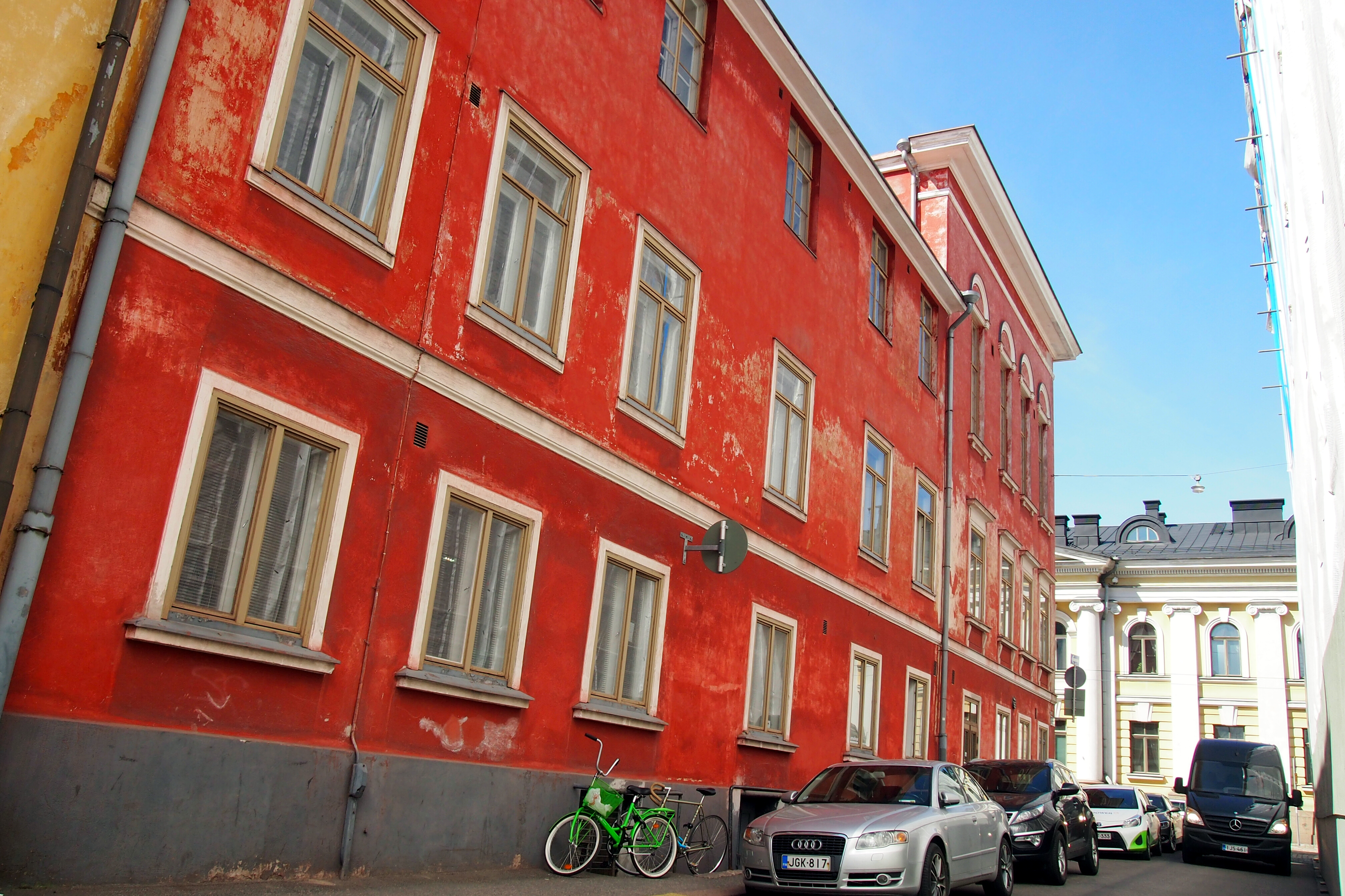 The house "Balderin talo" in Kruununhaka, Helsinki, Finland